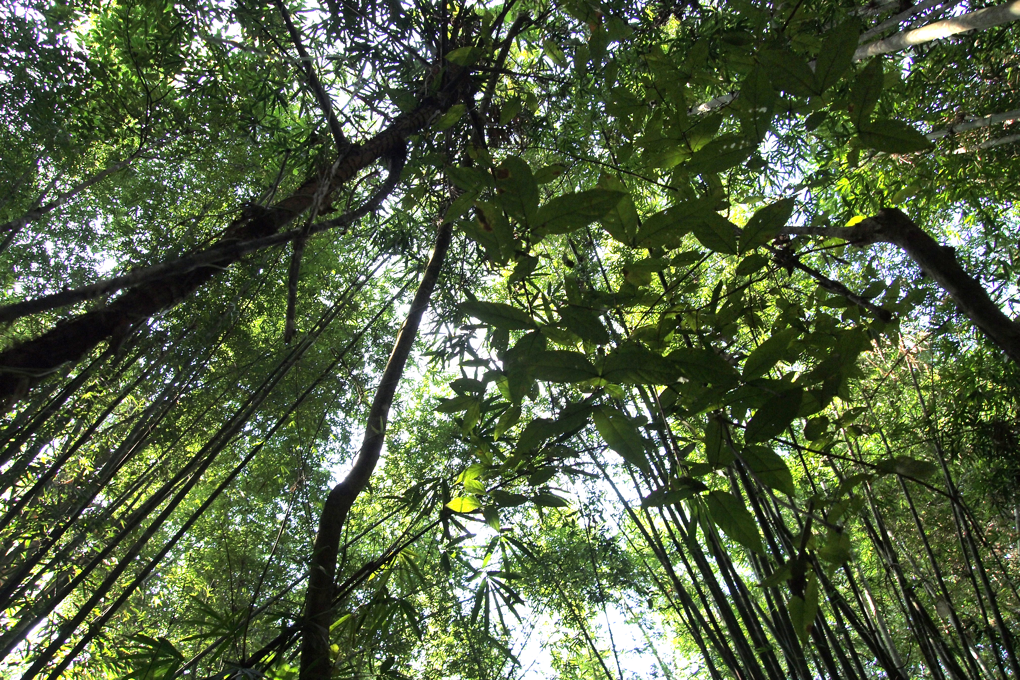 อุทยานแห่งชาติคลองพนม